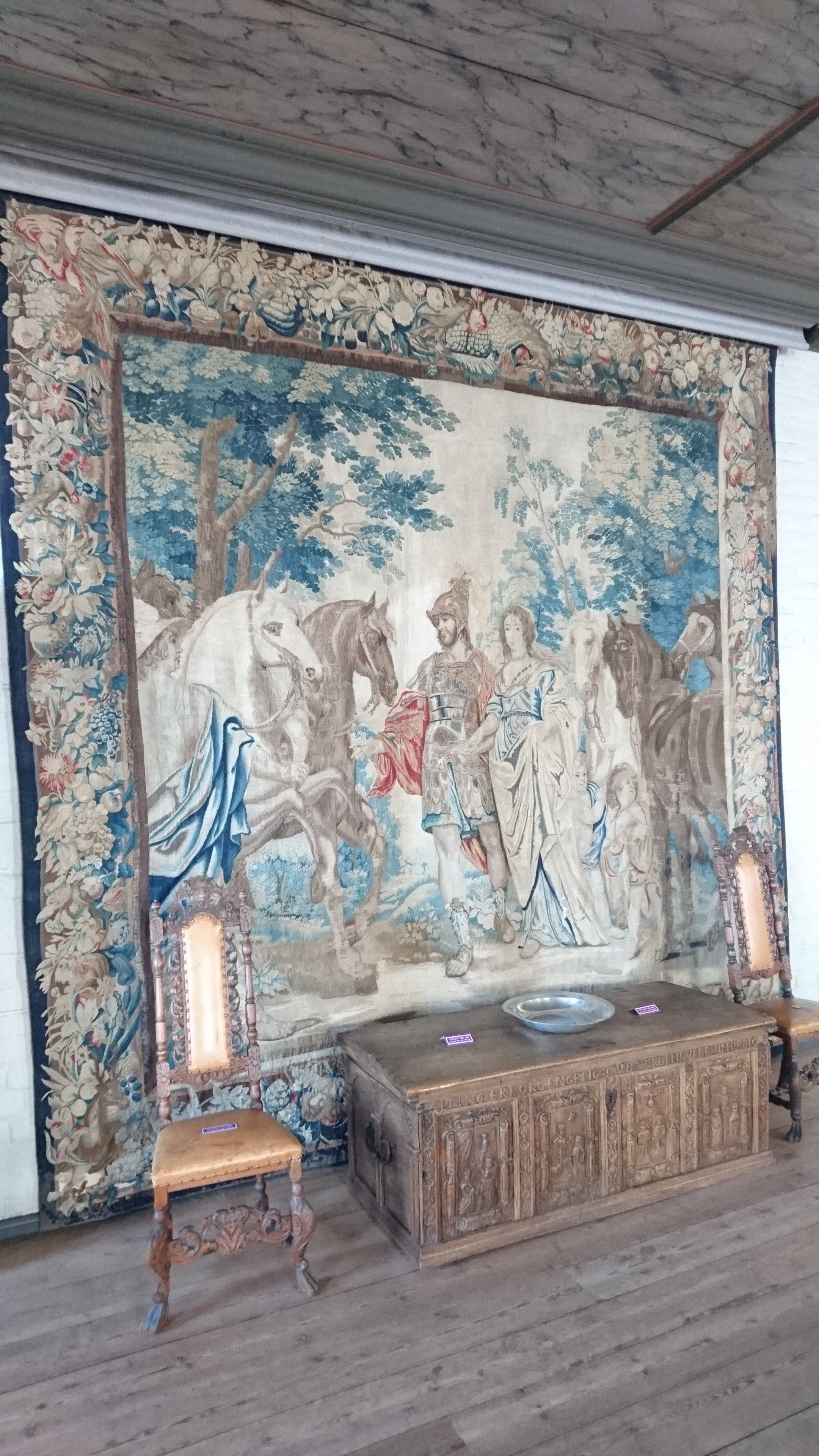 Tapestry from Christian IV's hall at Akershus Castle